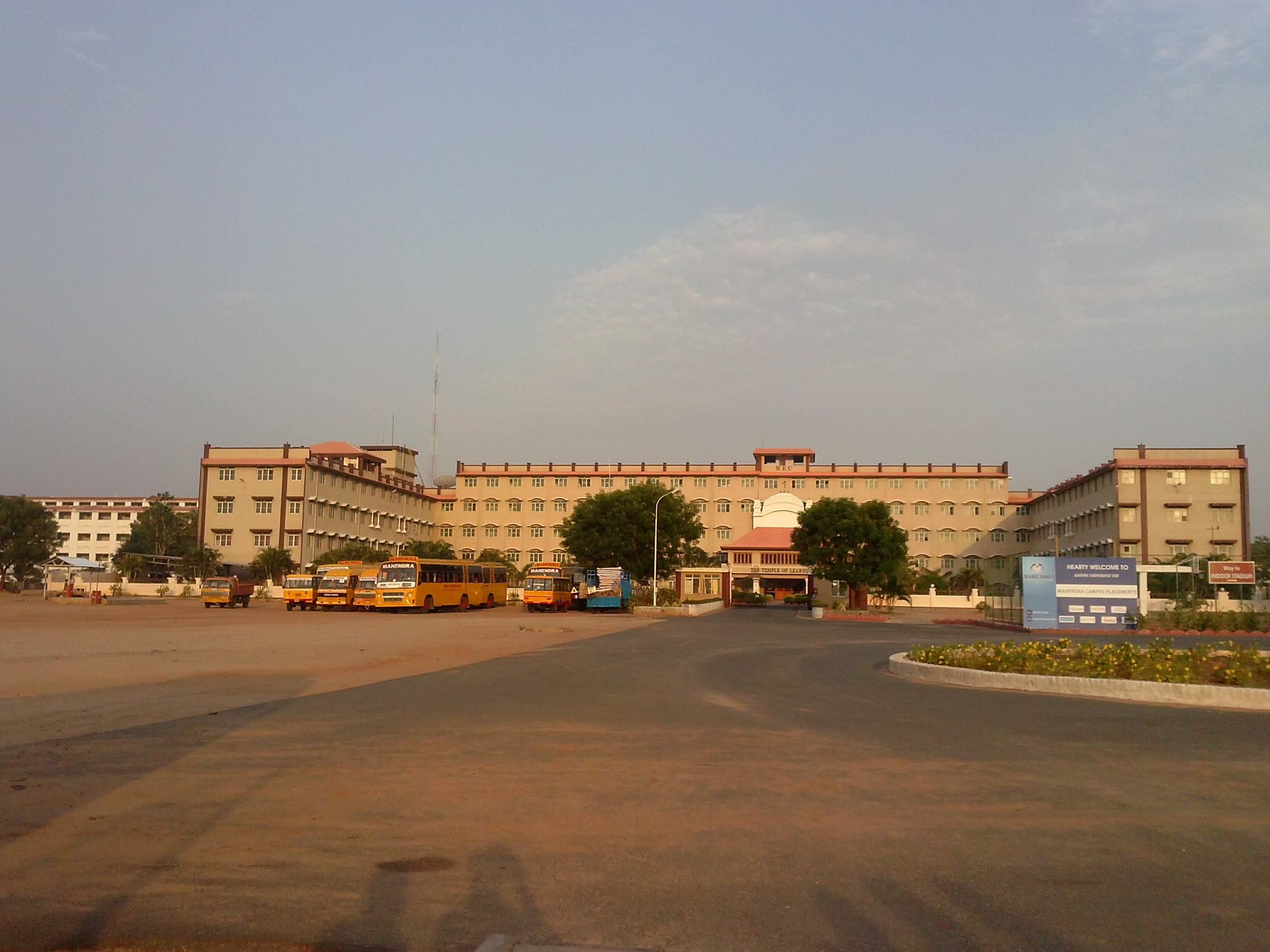 Mahendra Engineering College main building.